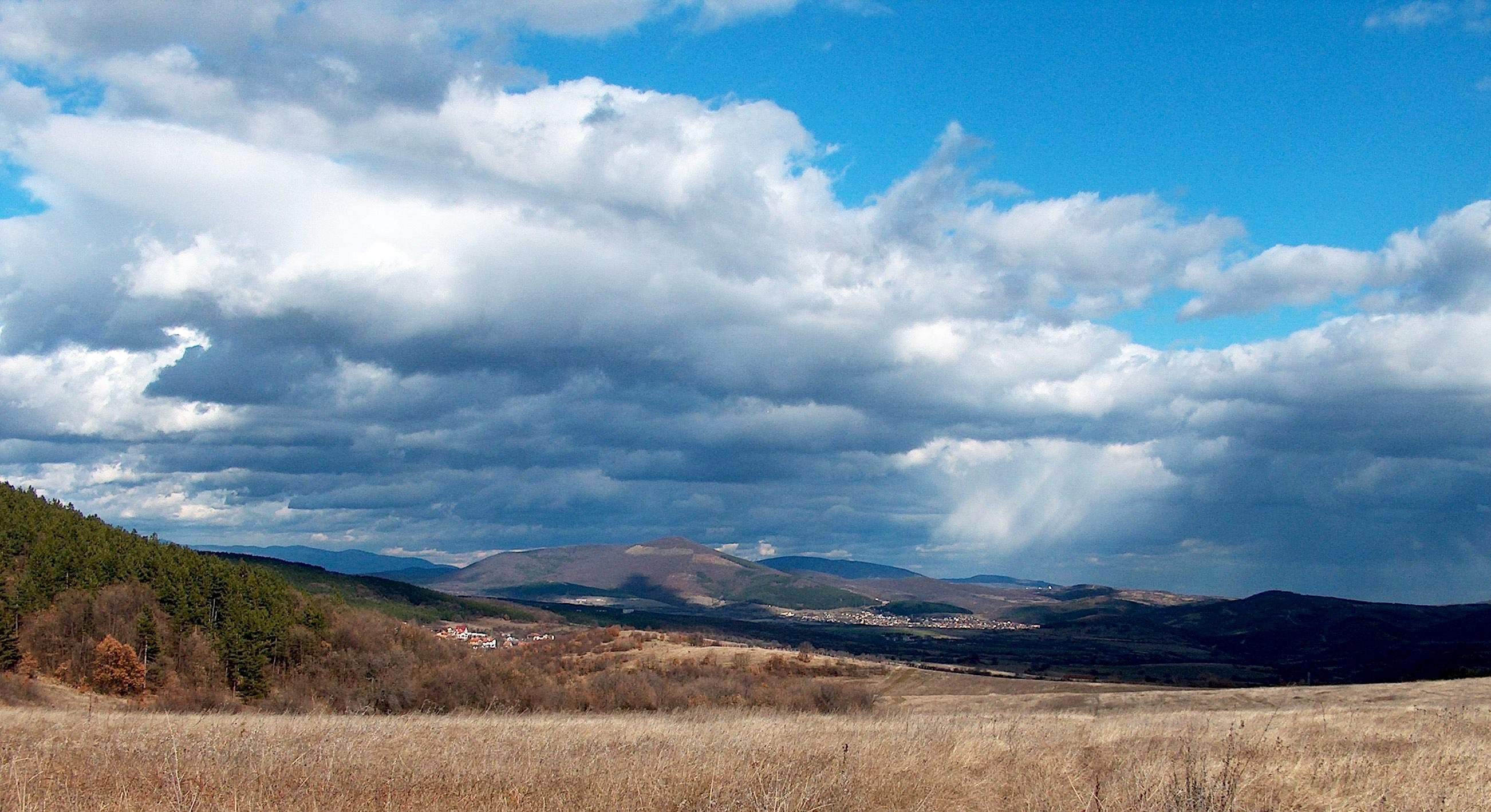 Bulgarian village Zmeiovo - peak Betera